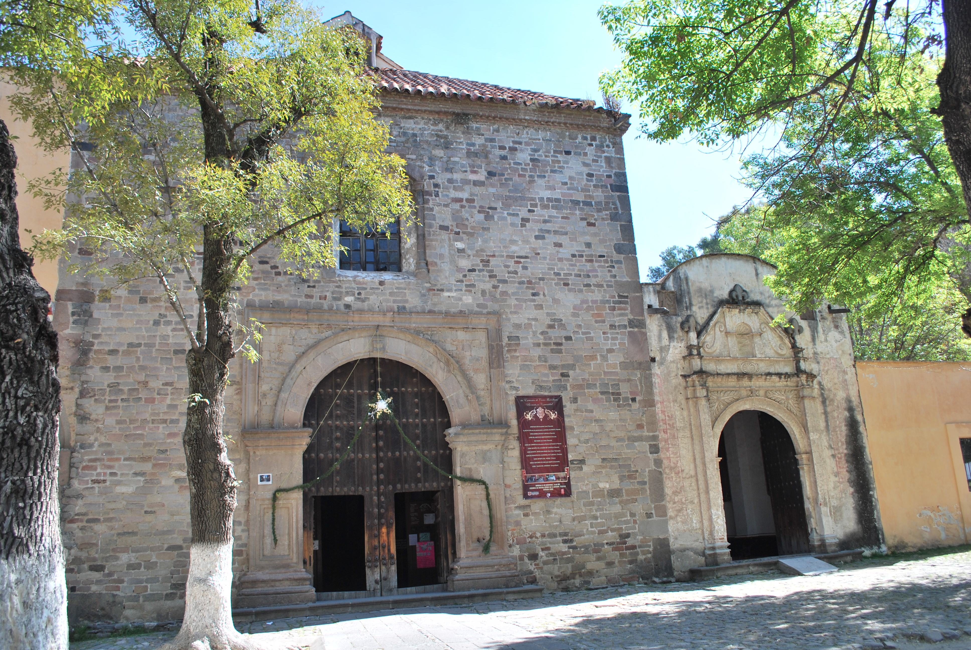 Main portal of the Tlaxcala cathedral